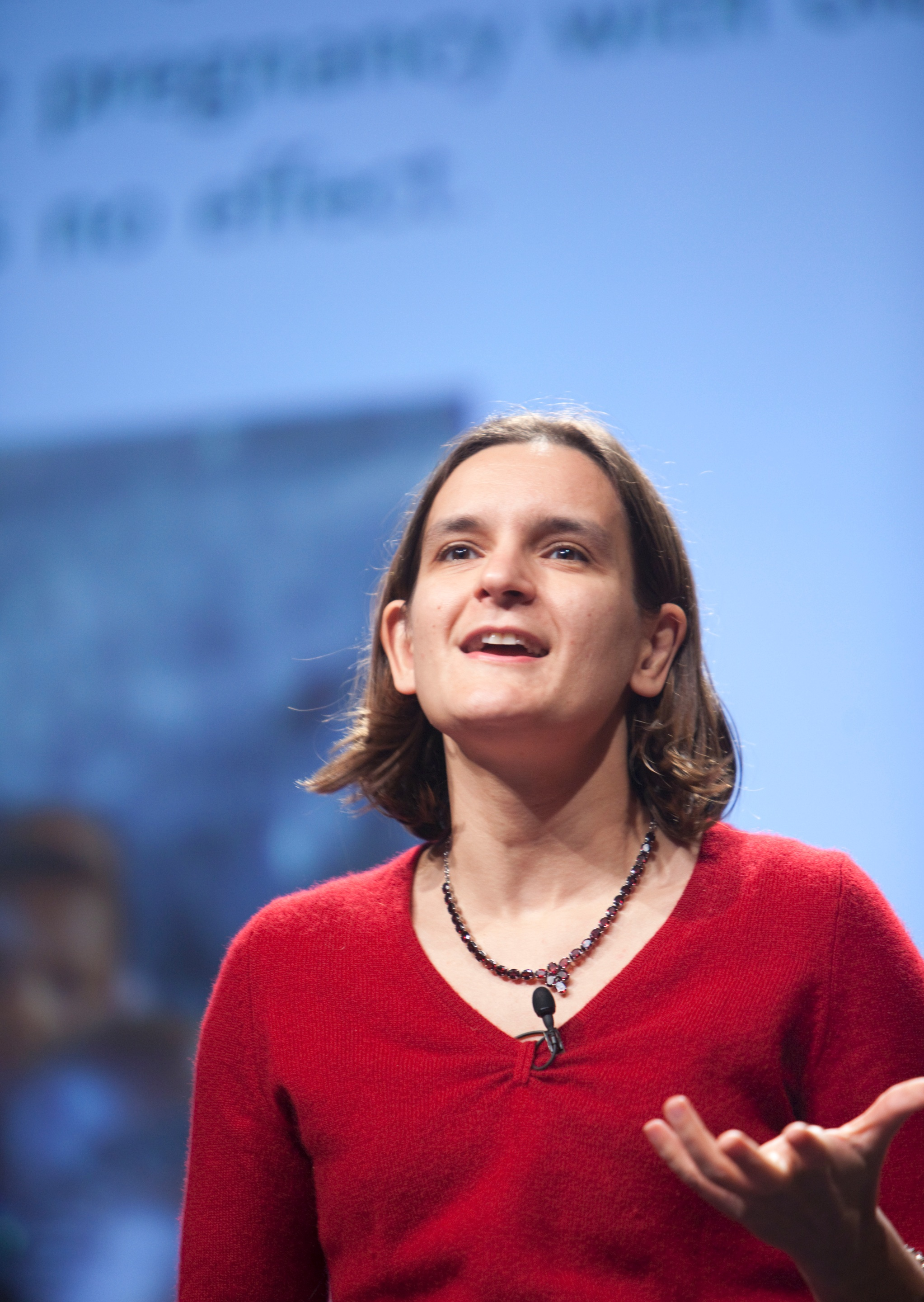 Esther Duflo at Pop!Tech 2009